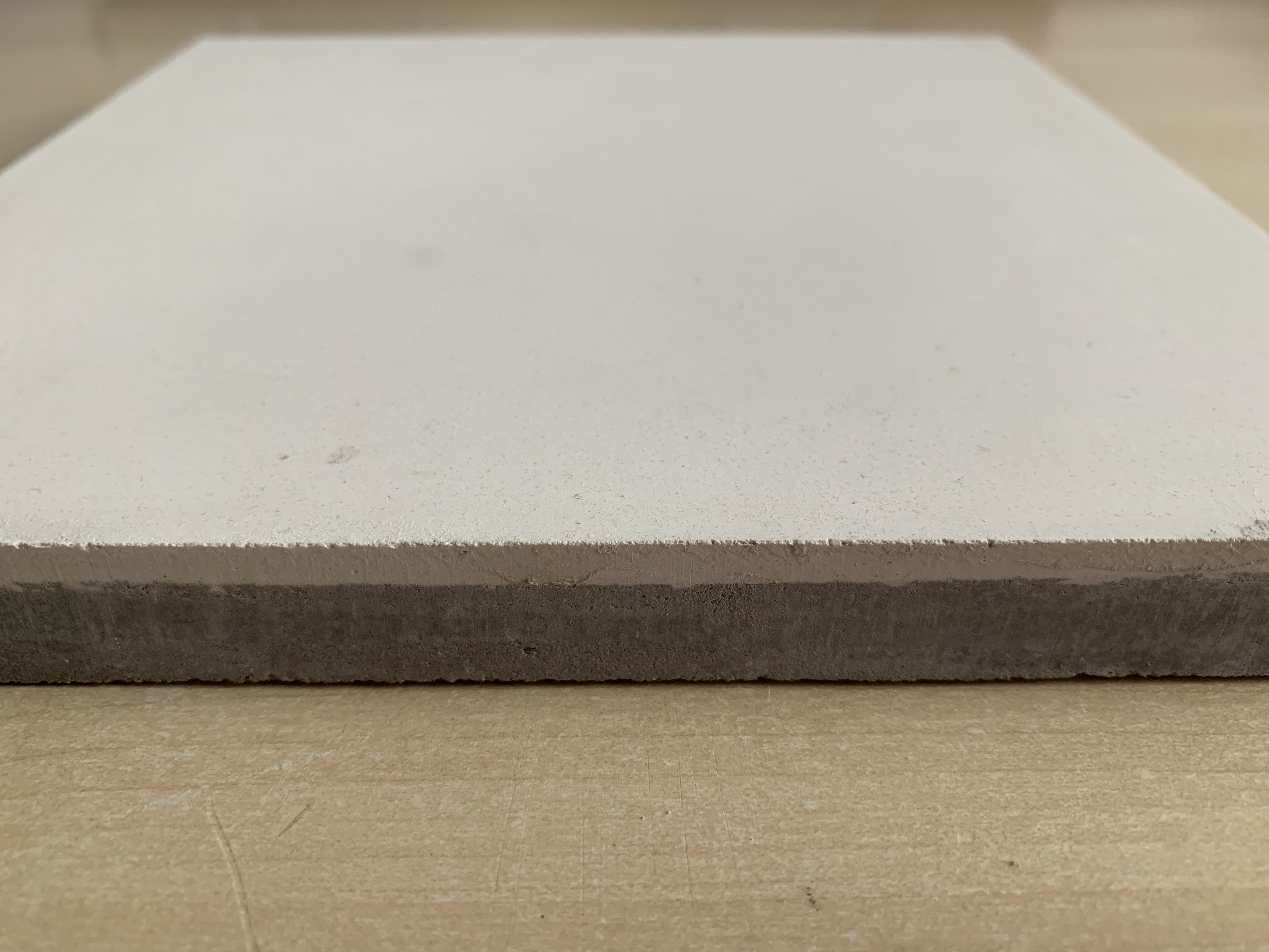 Cement tile seen from the side. Above the (white) decorative and wear layer a few mm thick, below the grey layer of load-bearing concrete (approx. 15 mm).